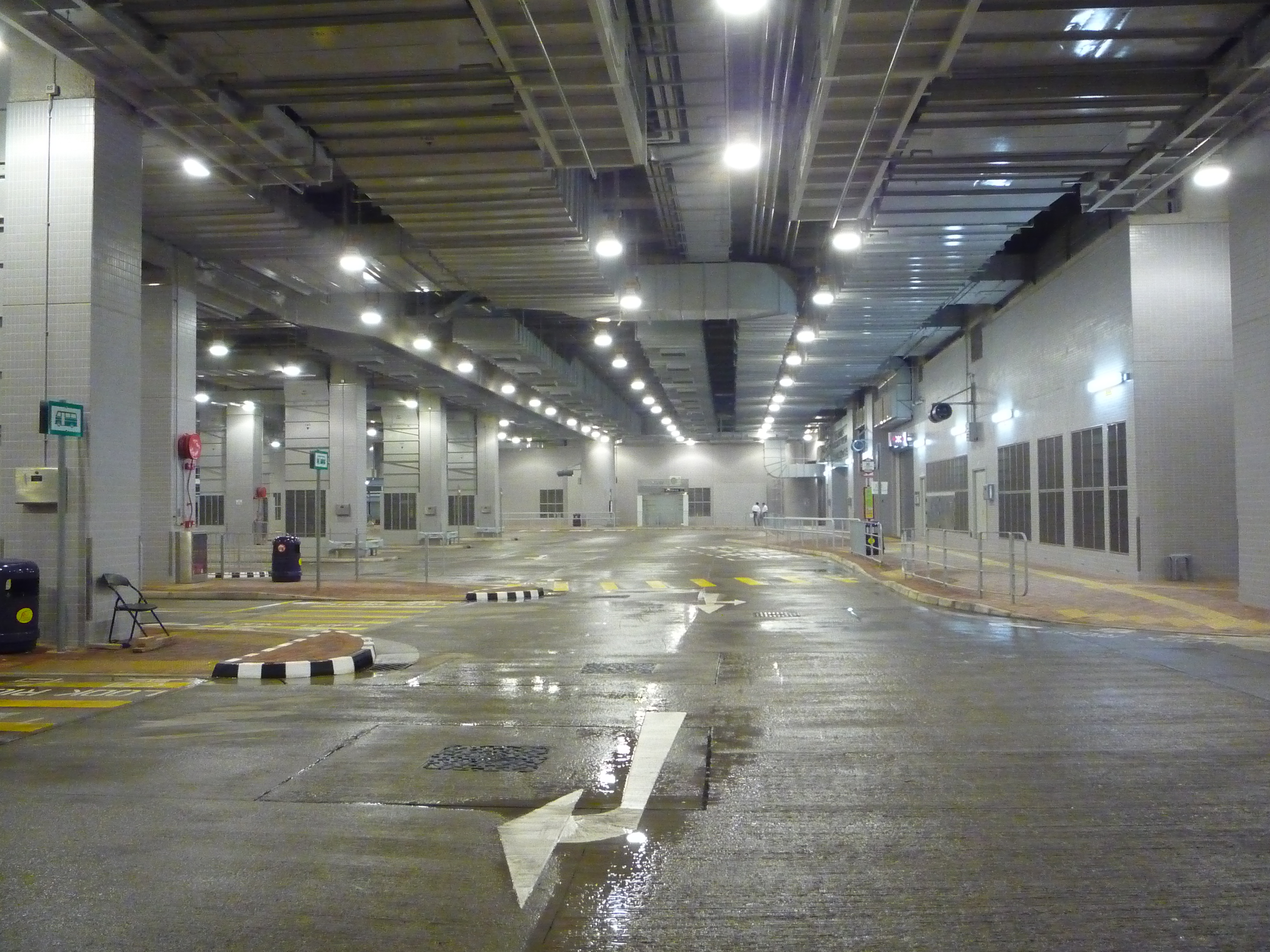 Tuen Mun Station Public Transport Interchange